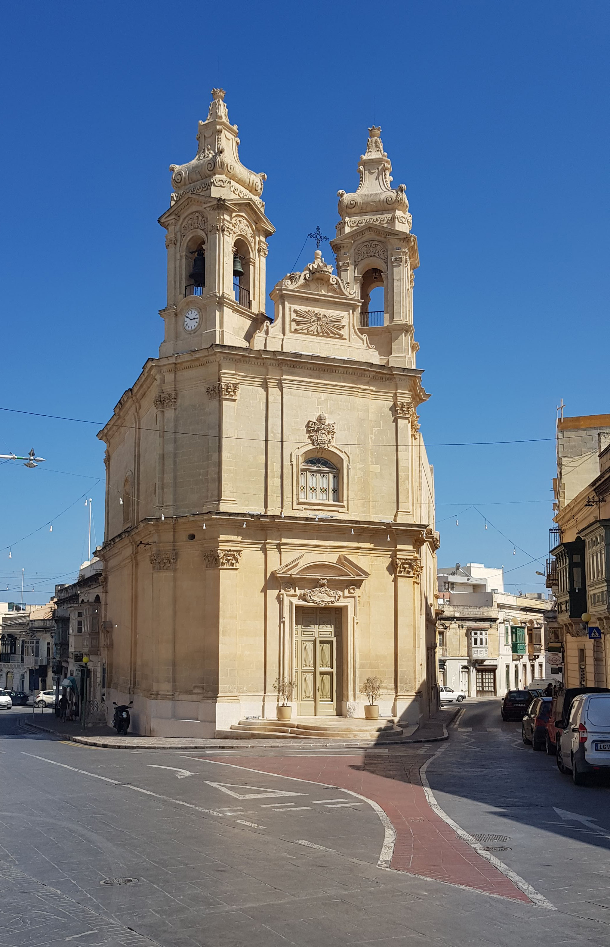 Old Church of St. Sebastian at the corner of Triq San Bastjan and Triq San Bartolomew, Qormi, Malta This media is about Maltese cultural property with inventory number 00497.